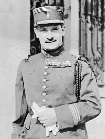 Russian-born French general and diplomat Zinovi Pechkoff (1884-1966)